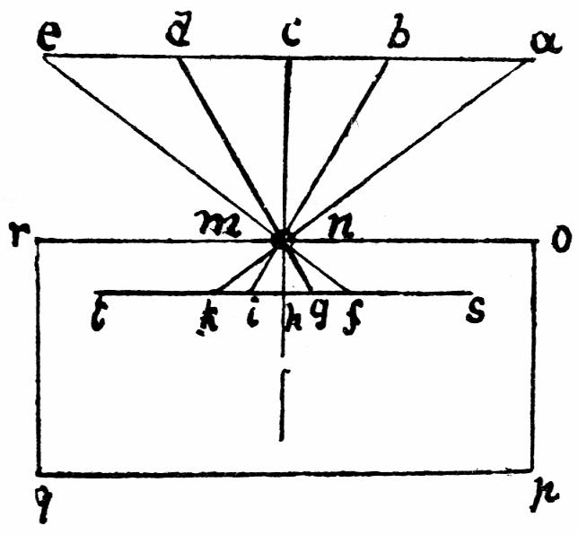 Diagram of camera obscura